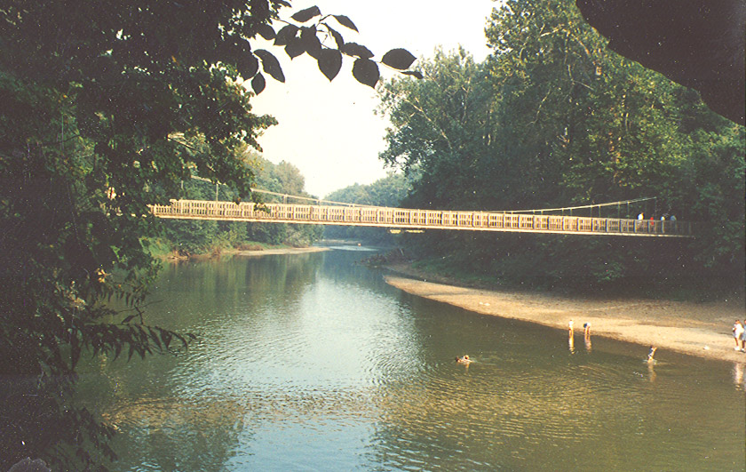 Suspension footbridge, Turkey Run S.P., IN, 9-1992